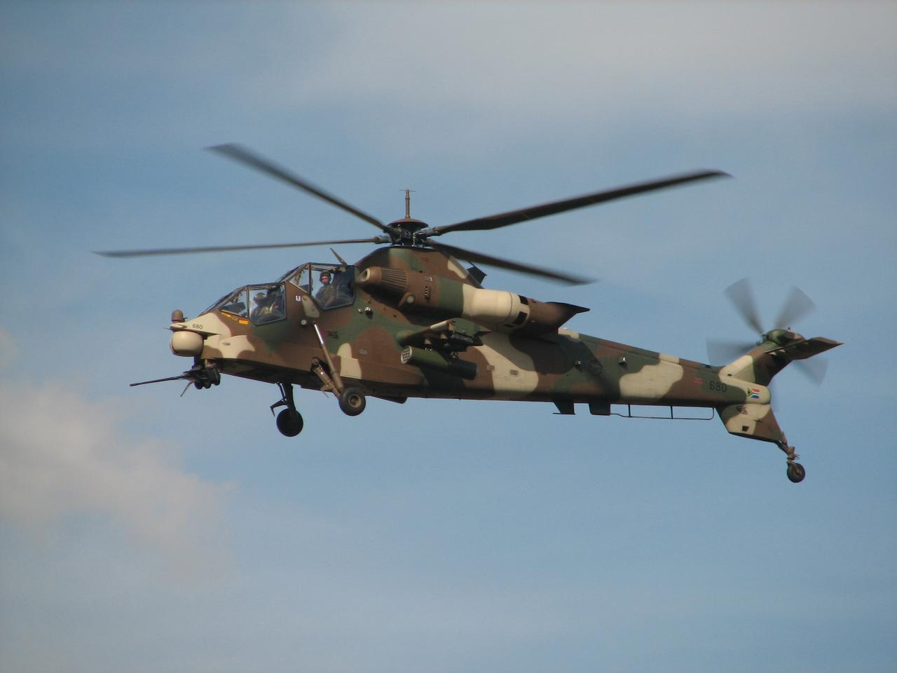 Denel CSH-2 Rooivalk flying at the Ysterplaat air show.